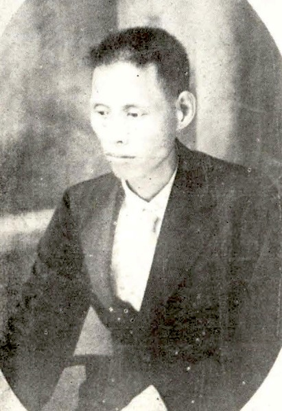 Iunn Hian-tat 楊顯達